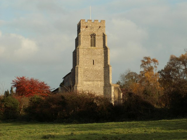 St Mary's parish church, Combs, Suffolk, seen from west-southwest